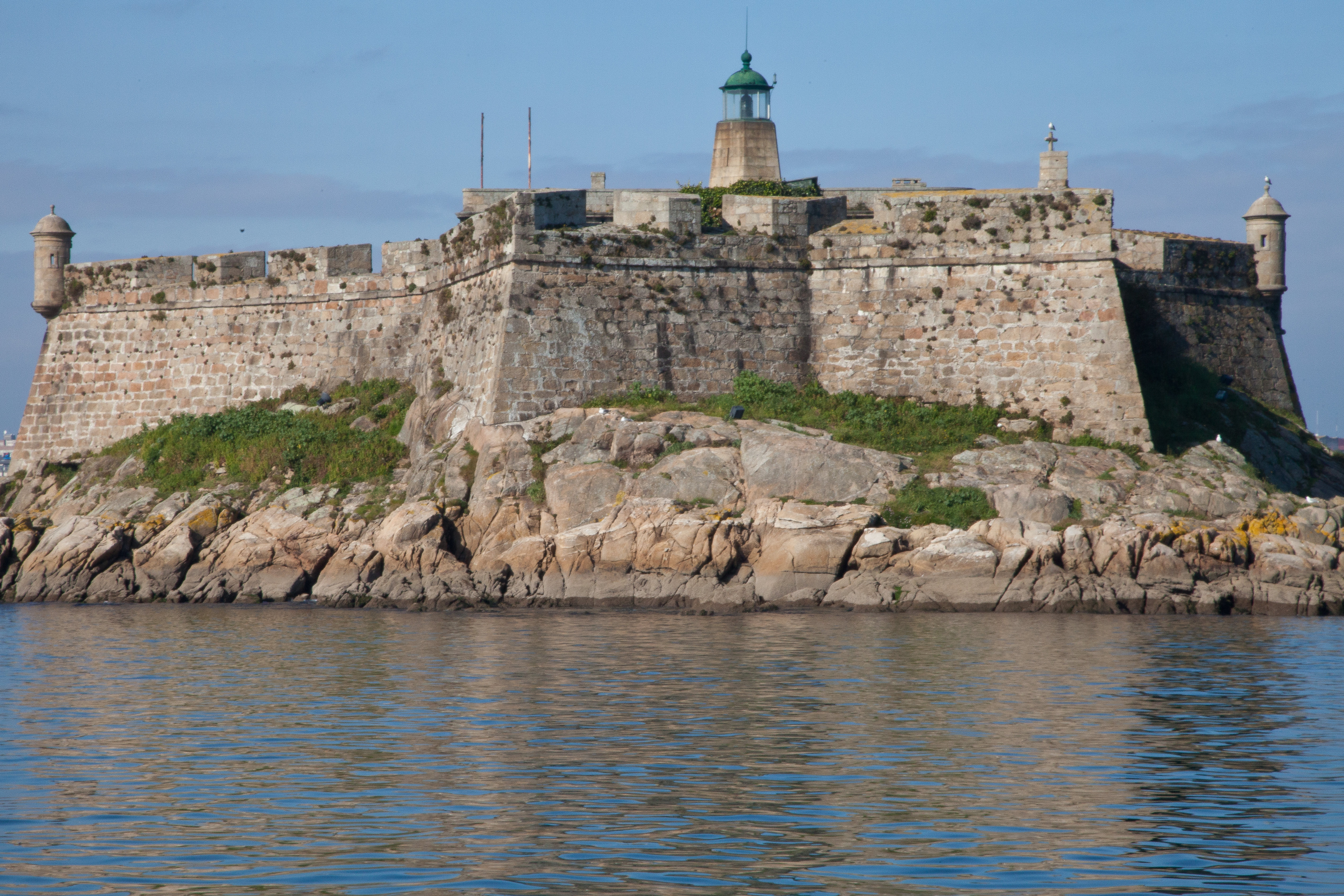 Castle of Saint Anthony, A Coruña, Galicia, Spain